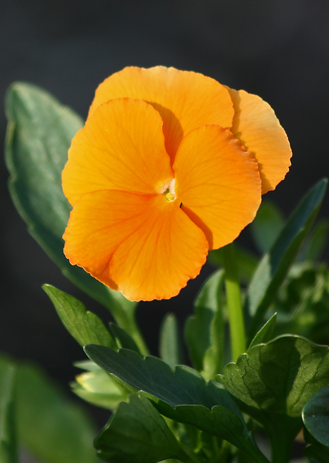 Viola 'Clear Crystals Apricot', a hybrid cross viola (Viola x hybrida), Victoria, Australia. The flower is approximately 4cm across.